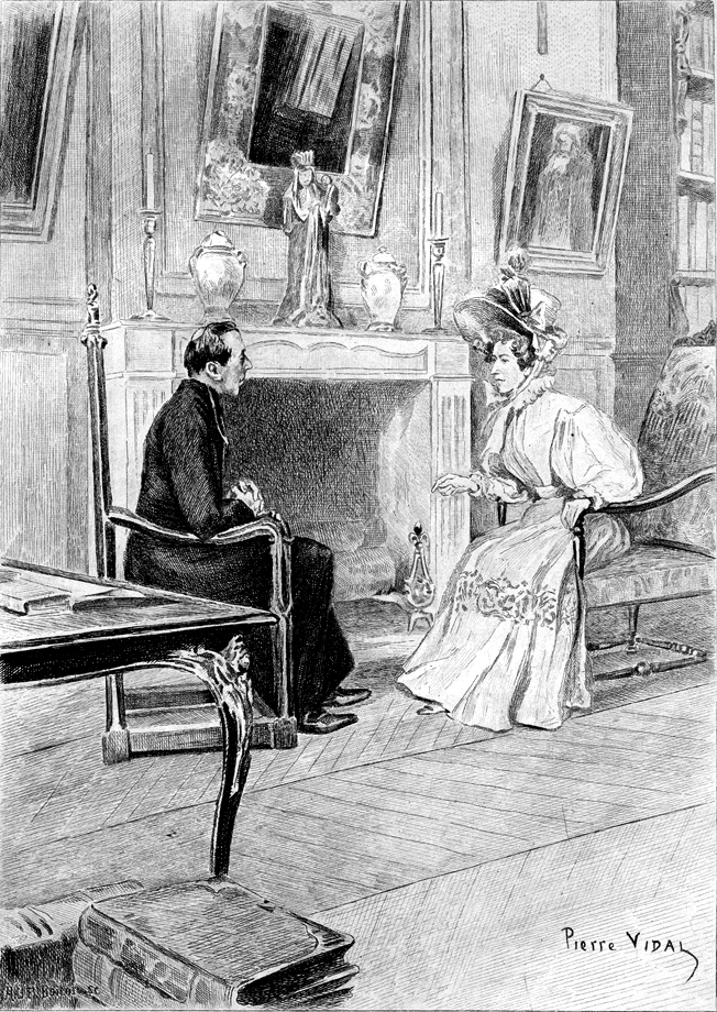 Illustration of Honoré de Balzac's The Cure of Tours (1832): Madame de Listomère and Troubert.